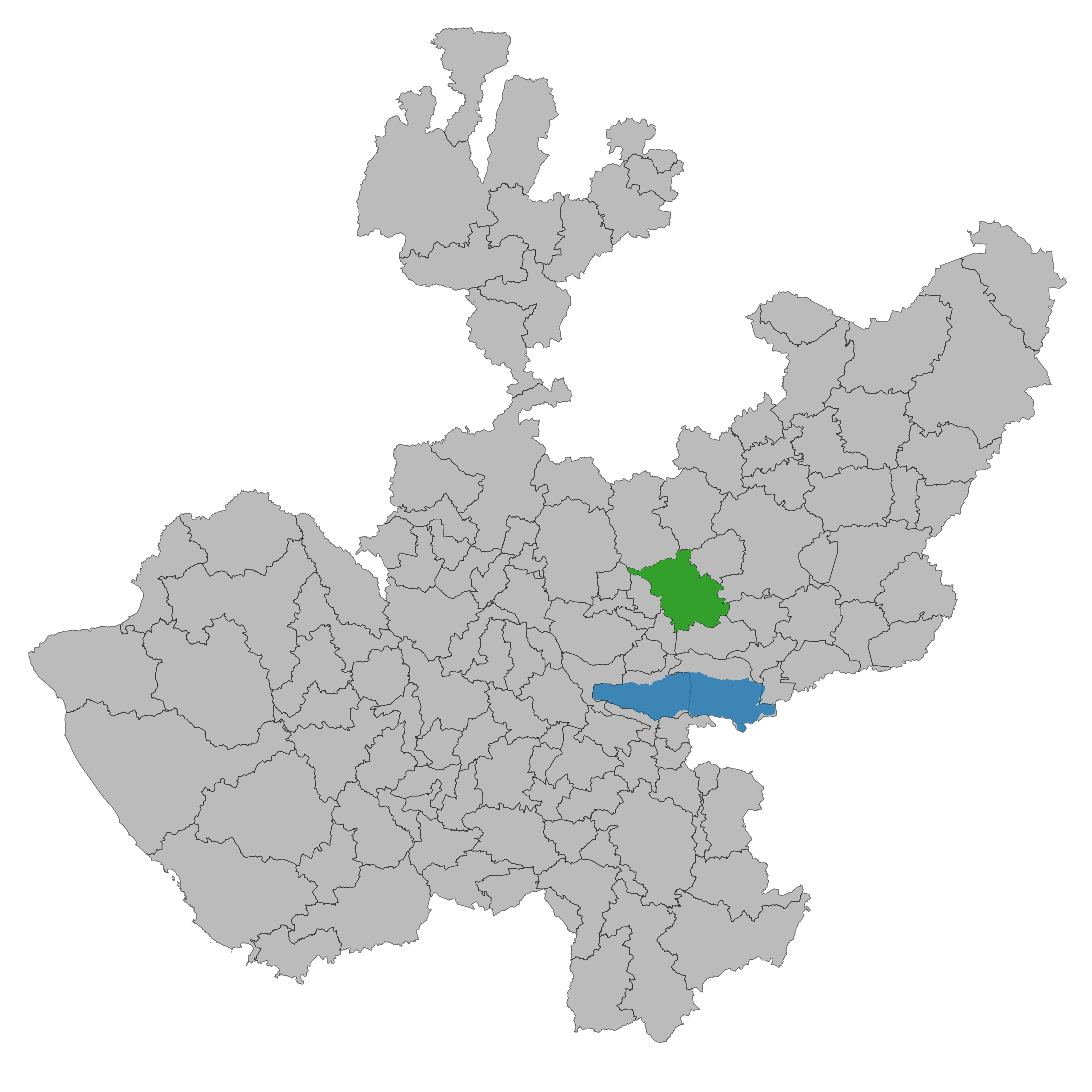 Municipality of Jalisco. Prepared with the software QGIS version 2.8.2 Wien & with information of SCINCE 2010 version 05/2013